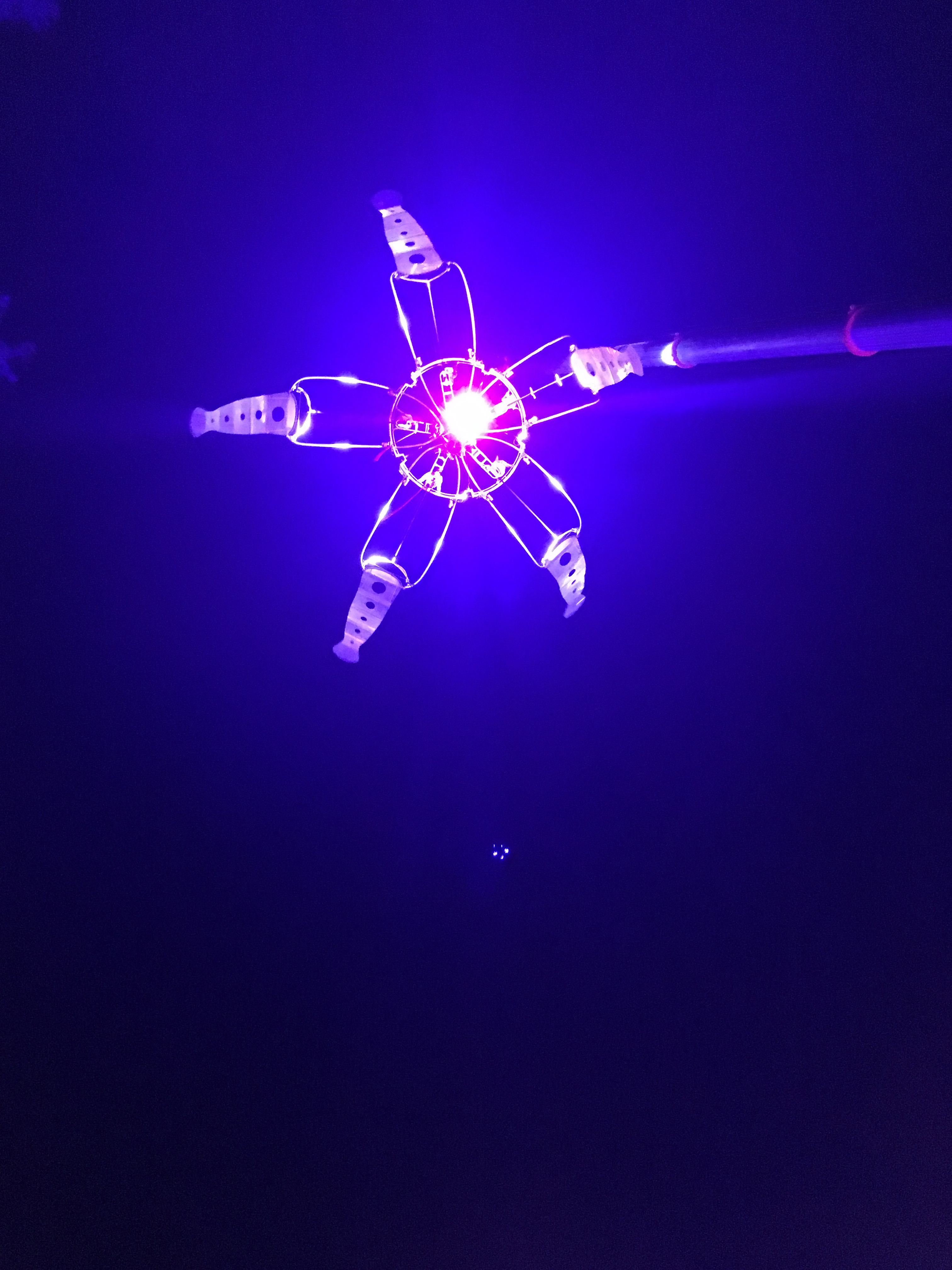 Street theater and acrobatics "Mù – Cinématique des fluides“ of the French "Compagnie Transe Express" at the opening of the yearly art festival "Kunstfest", August 17th 2018, Weimar, Germany